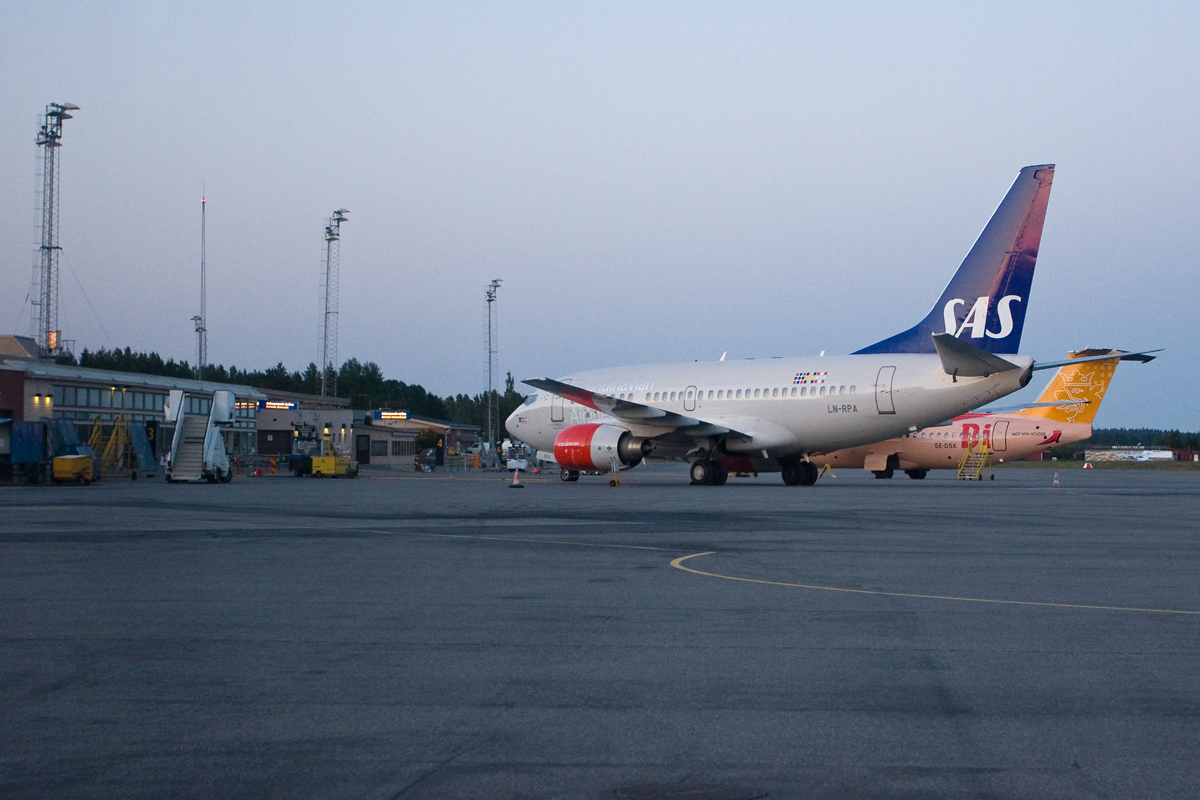 SAS Boeing 737-600 LN-RPA and Malmö Aviation